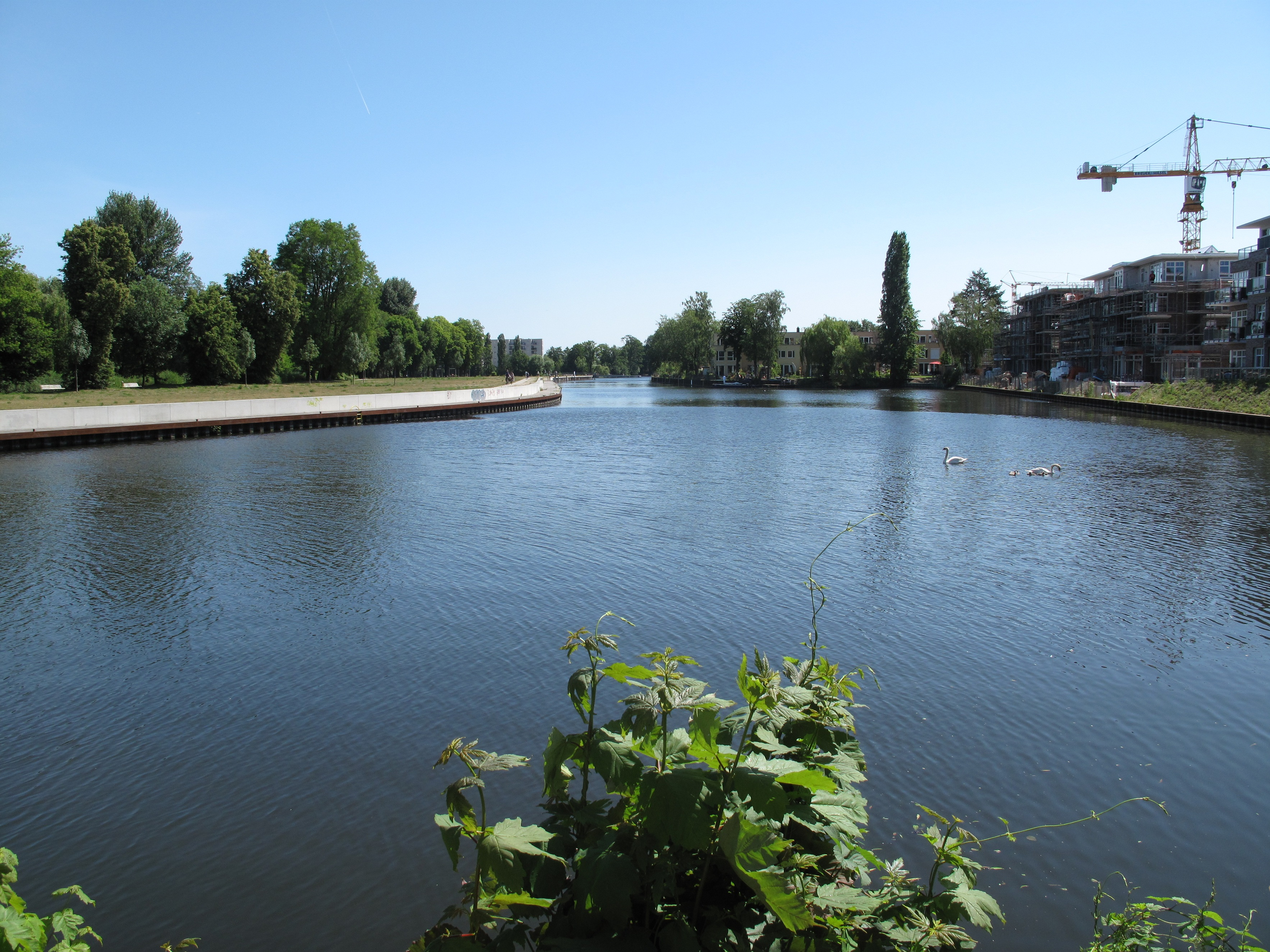 The Nordhafen Spandau (north harbour Spandau) is a branch canal of the river Havel and a former inland harbour in Berlin, Borough Spandau, locality Hakenfelde.